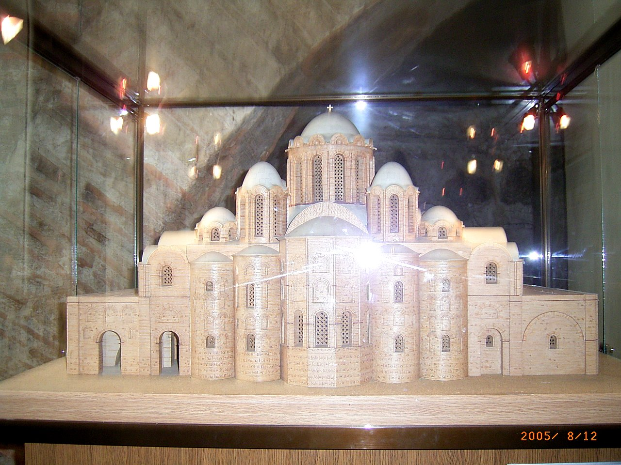 Description: reconstruction of the St. Sophia of Kiev, as it looked originally Author: Alexander Noskin Date: 8-12-2005